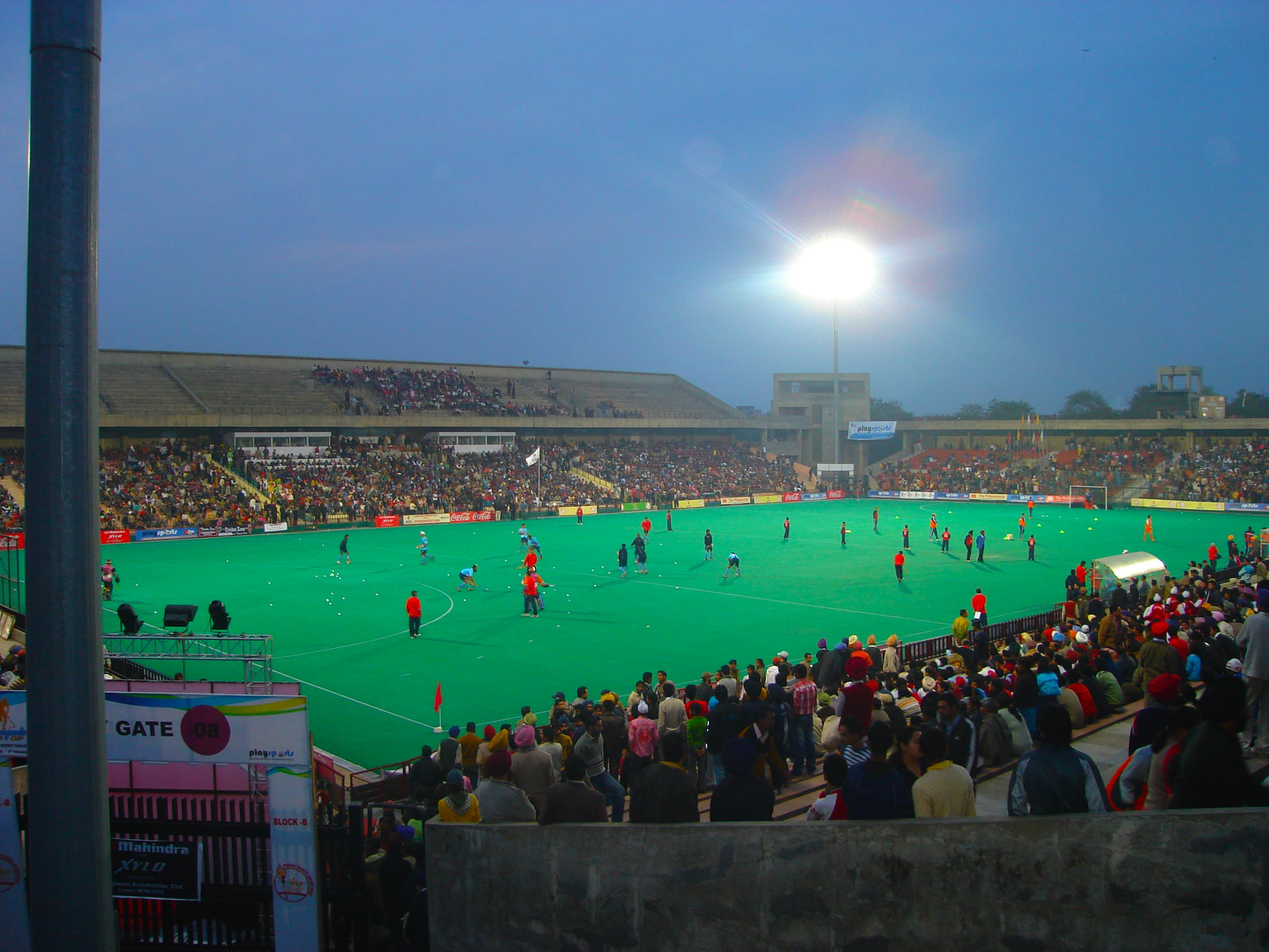 India & Netherlands team practice 1 hour before the finals (for Punjab Gold Cup) at the sector-42 Hockey stadium on 09/02/09. The Indian team went down 1-2 to the Netherlands. Nearly 25,000 fans gathered to watch the match.